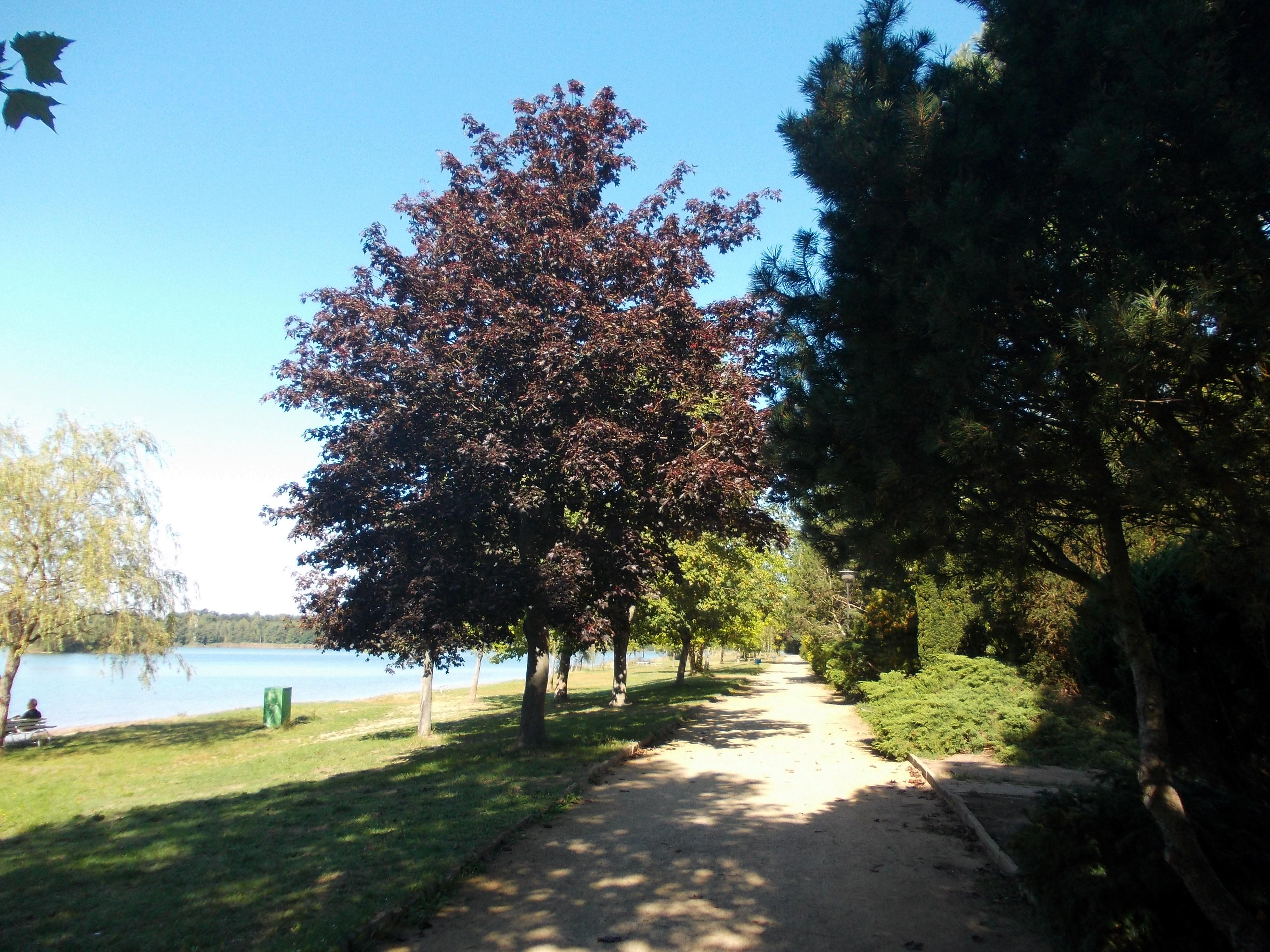 Promenade at Kiebitz Lake (Falkenberg/Elster, Elbe-Elster district, Brandenburg)